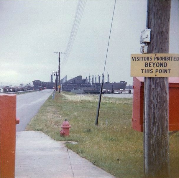 Liberty Ships in mothballs at Tongue Point, Astoria, Oregon